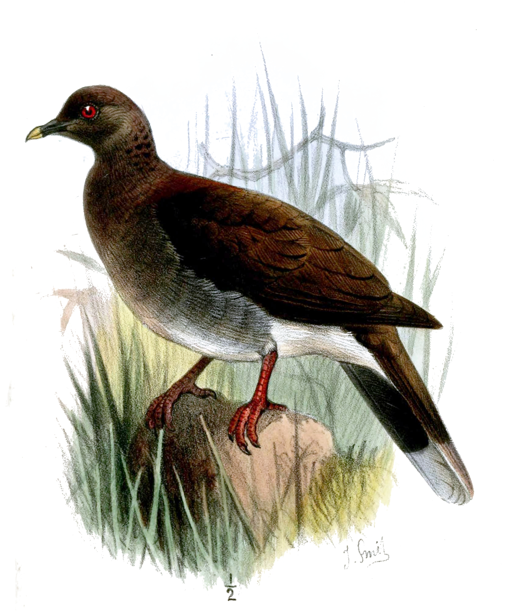 Turtus aldabranus=Nesoenas picturata aldabrana, PL.LXXIII from Description of a new Species of Dove from the Coral reef of Aldabra.